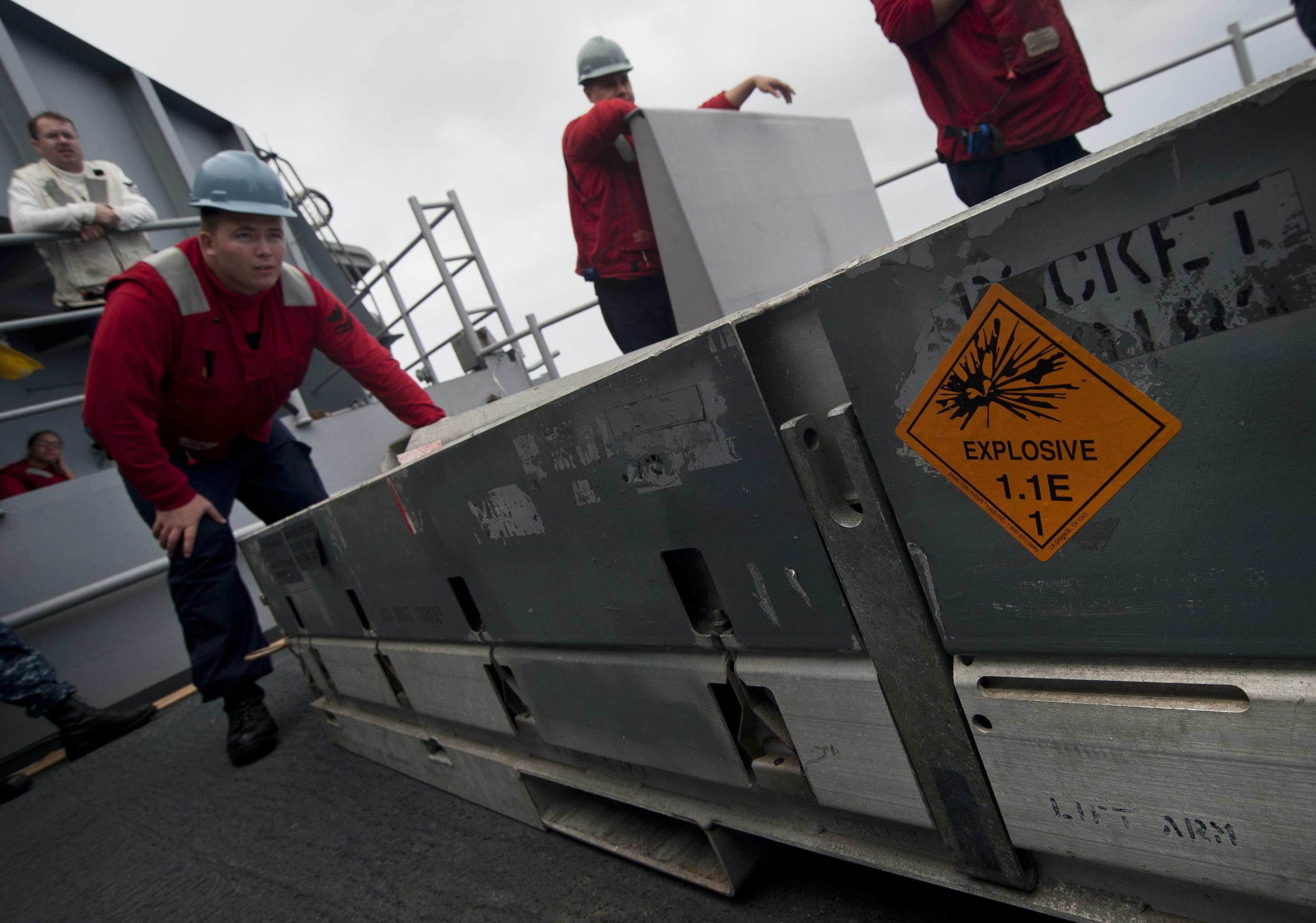 PACIFIC OCEAN (Dec. 23, 2010) Sailors assigned to the CS-7 Division of the combat systems department aboard the aircraft carrier USS Carl Vinson (CVN 70) load RIM-116 Rolling Airframe Missiles into a launcher. Carl Vinson and Carrier Air Wing (CVW) 17 are on a deployment to the U.S. 7th and U.S. 5th Fleet areas of responsibility. (U.S. Navy photo by Mass Communication Specialist 2nd Class James R. Evans/Released)